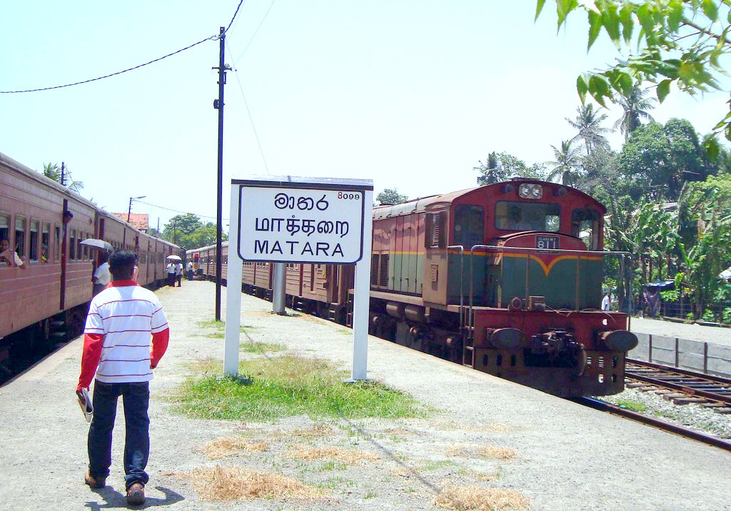 M7 811 pulling an express train into Matara Station